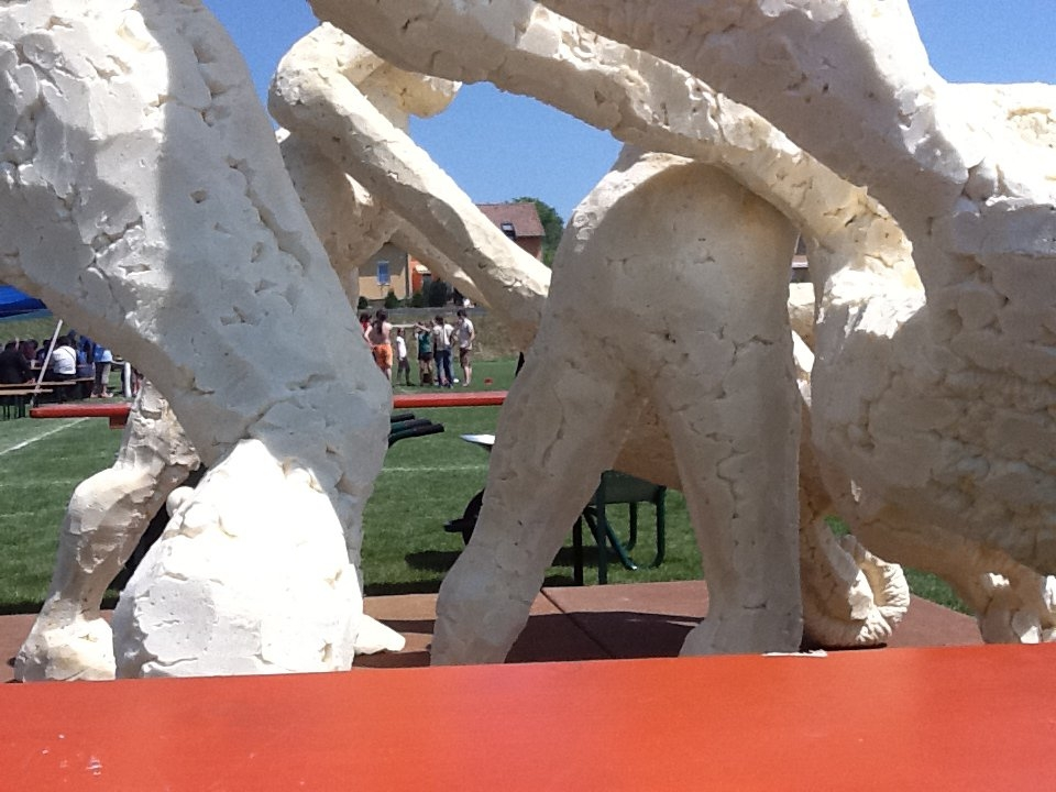 Site of the 2011 Wheelbarrow Olympics in Hosszúhetény, Hungary, through the sculpture by Ghenadie Popescu